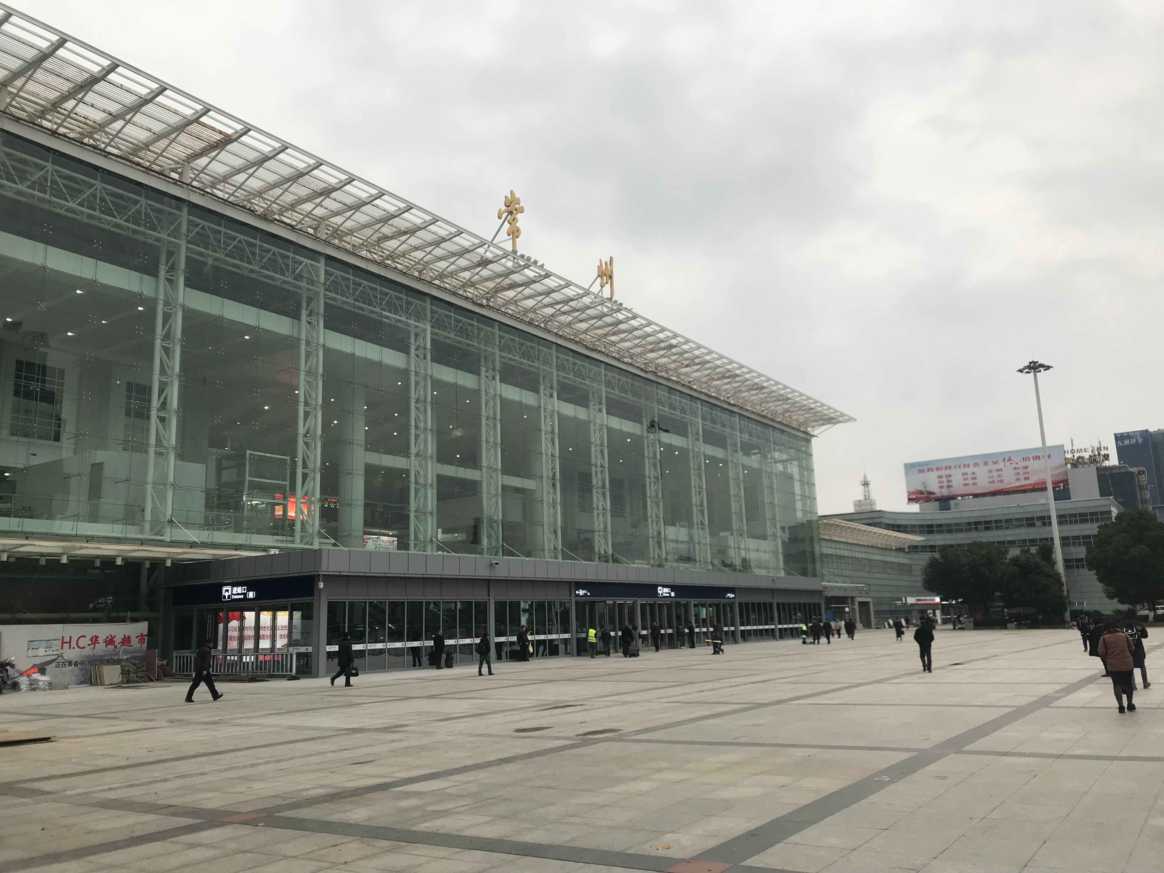 201812 Changzhou Station South Building West Side View